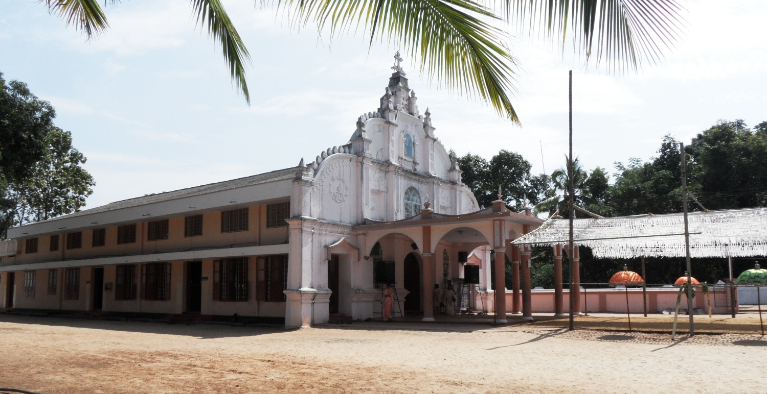 pallipuram palli,alapuzha